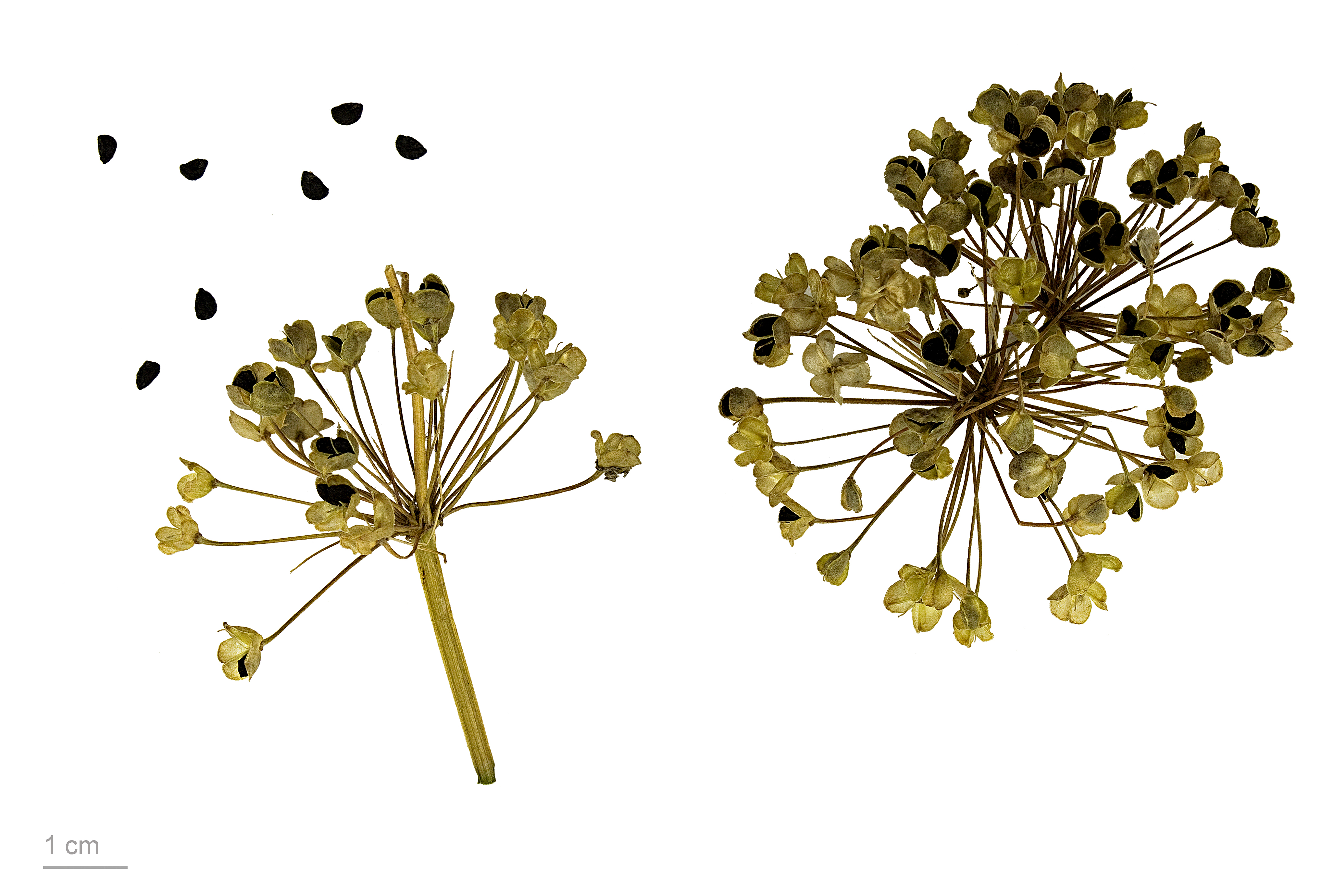 garlic chives , fruits and seeds